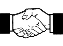 Logo of Alianza por Chile.